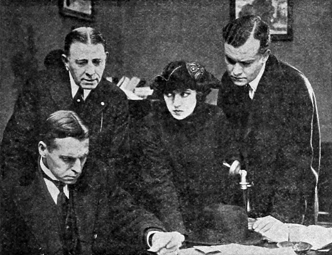 Promotional still from the 1917 Vitagraph film The Money Mill